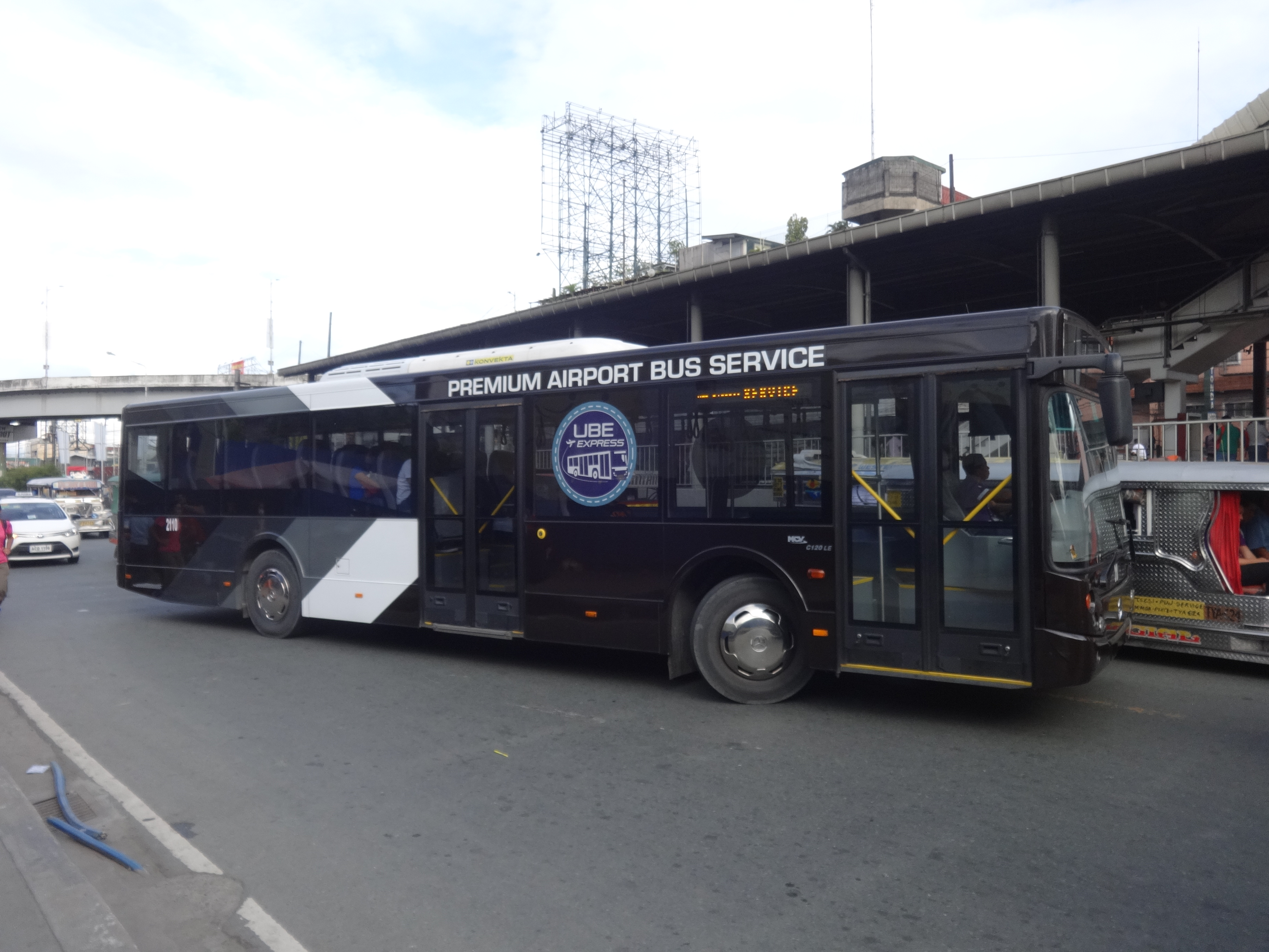 A premium bus along EDSA in Pasay City